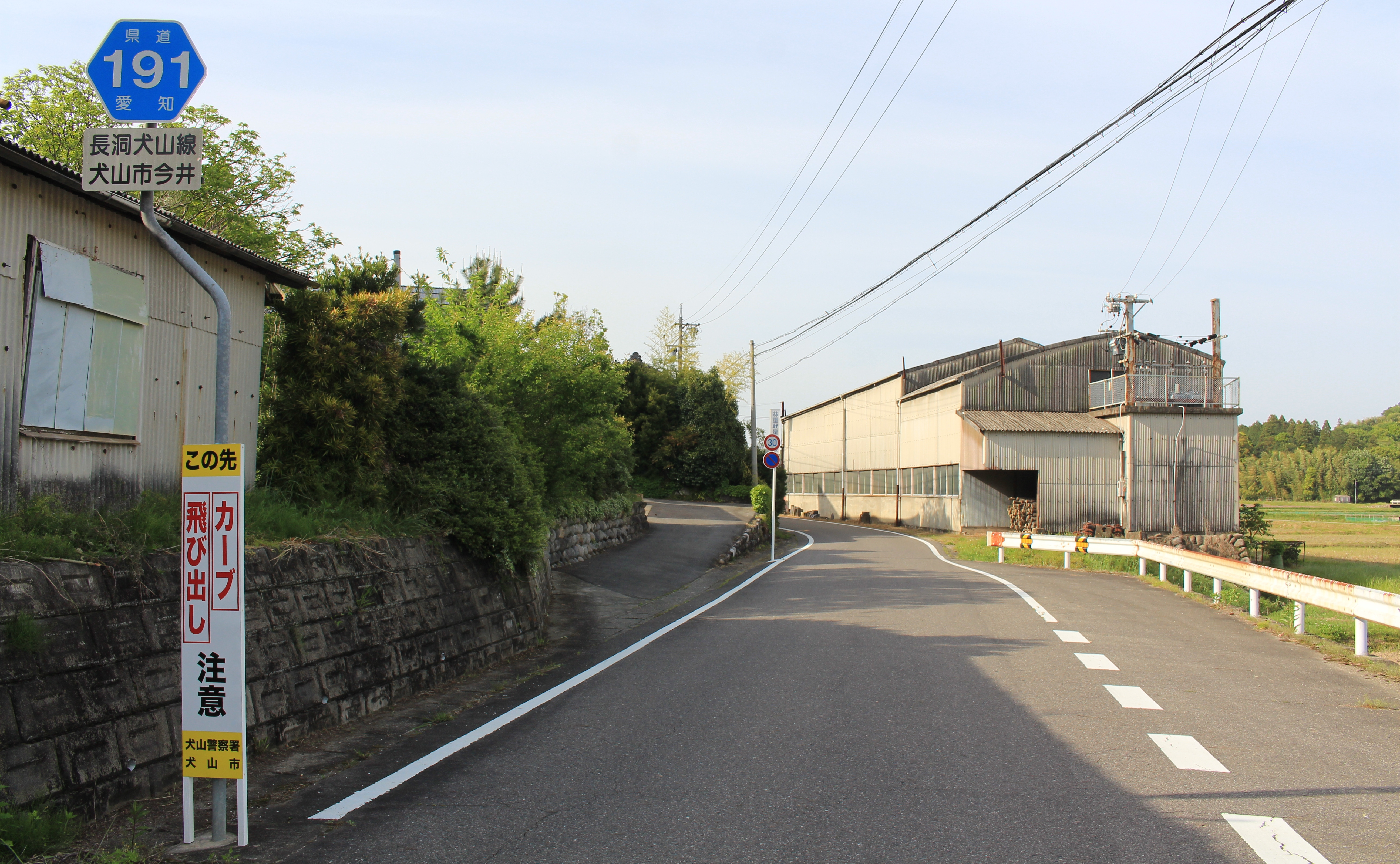 Aichi Prefectural Road Route 191 in Imai, Inuyama, Aichi prefecture, Japan.